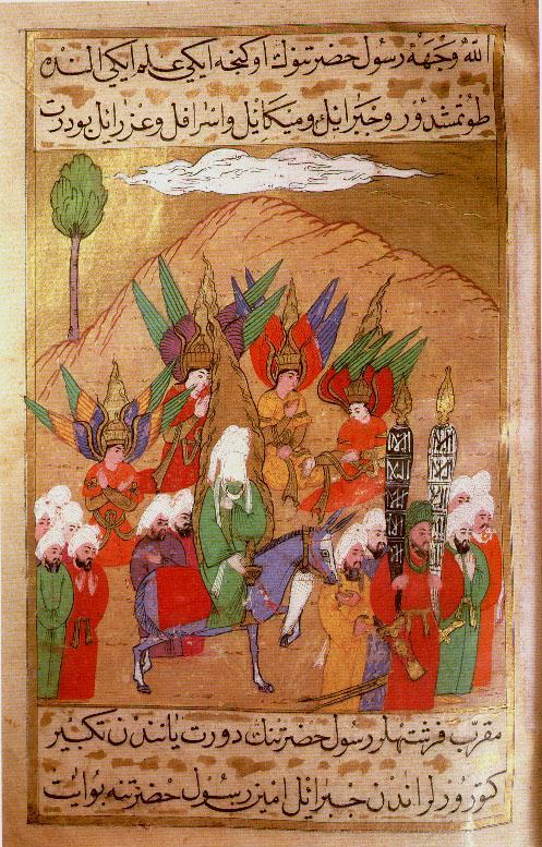 The Prophet and his companions advancing on Mecca, attended by the angels Gabriel, Michael, Israfil and Azrail.